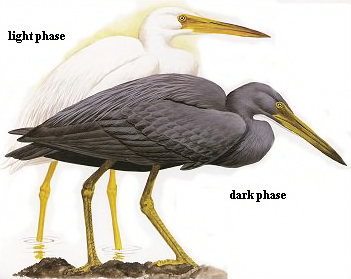 A drawing of Pacific Reef-herons, dark-phase and light-phase